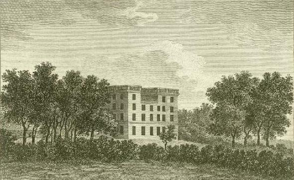 Tupton Hall, Wingerworth, Derbyshire. Engraving by Sparrow, c.1800. Collection of Derbyshire Libraries, formerly collection of Thomas Bateman (1821-1861) of Middleton by Youlgreave, published in Lysons, Daniel & Samuel, Magna Britannia, Vol.5, Derbyshire